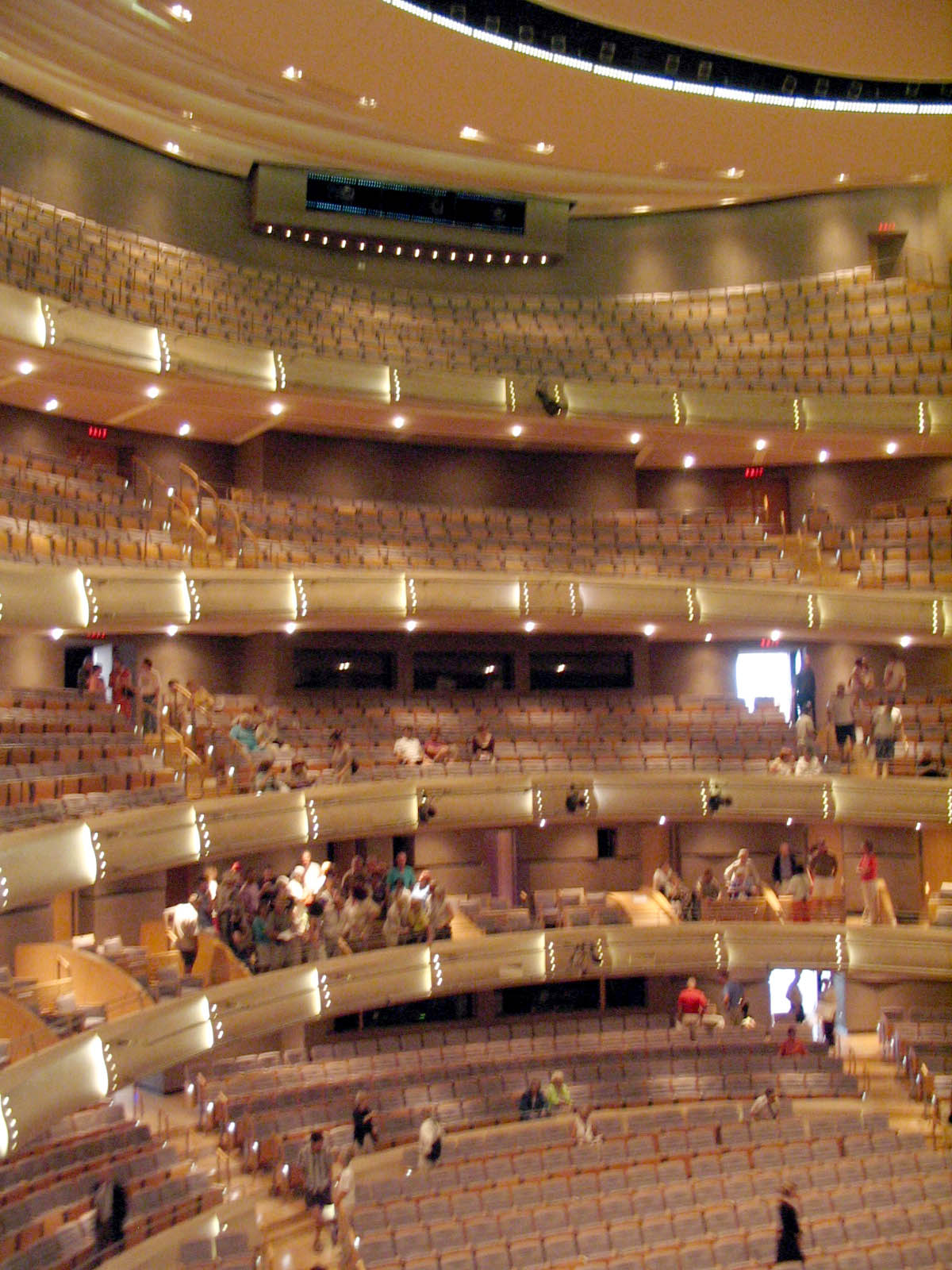 R. Fraser Elliott Hall in the Four Seasons Centre in Toronto, Ontario, Canada.